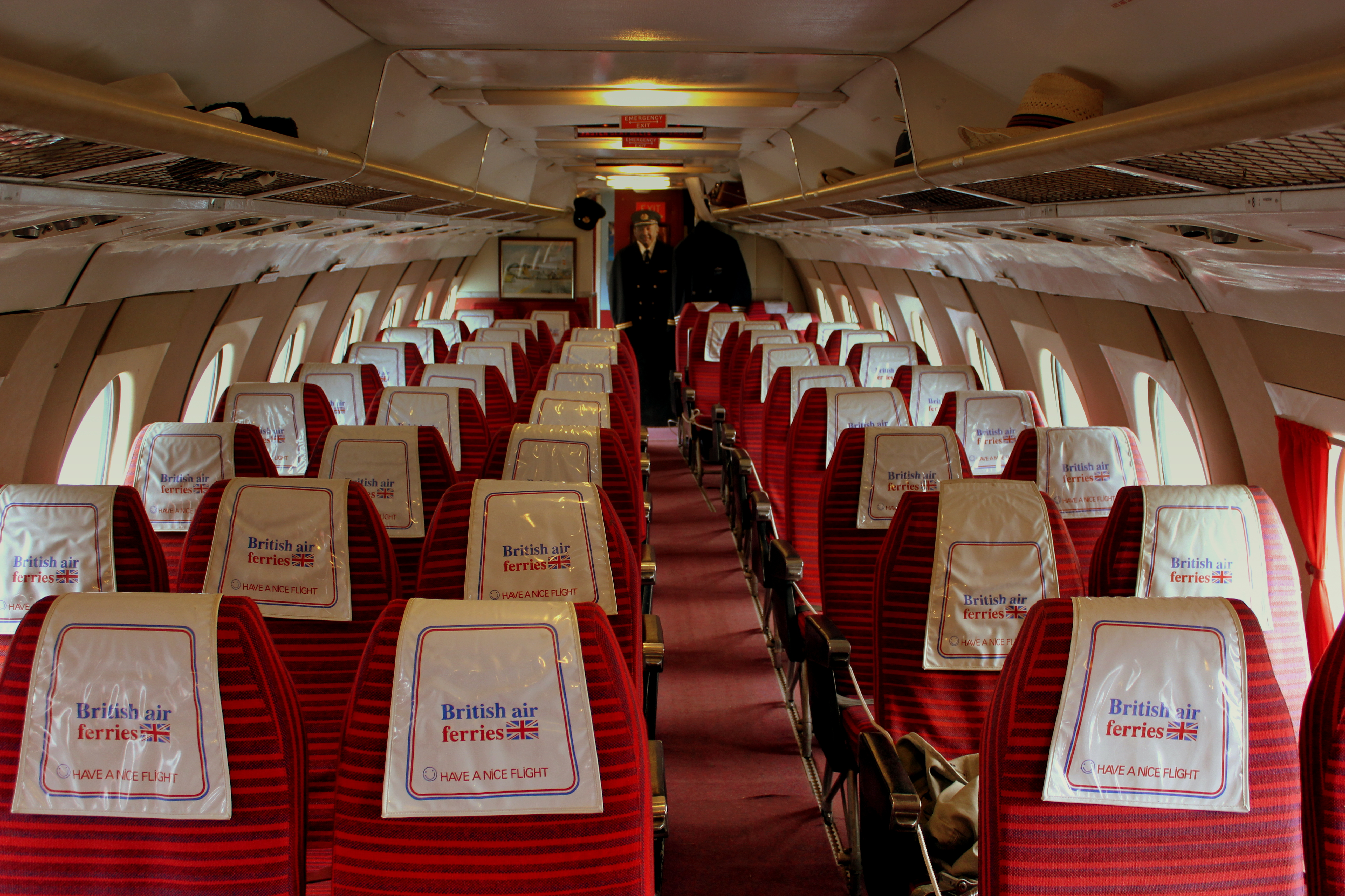 I FLEW ON 17 VISCOUNTS,AND THERE IS NOTHING TO TOUCH IT FOR COMFORT AND ALL ONE CLASS TOWARDS THE END OF THEIR FLYING LIFE.